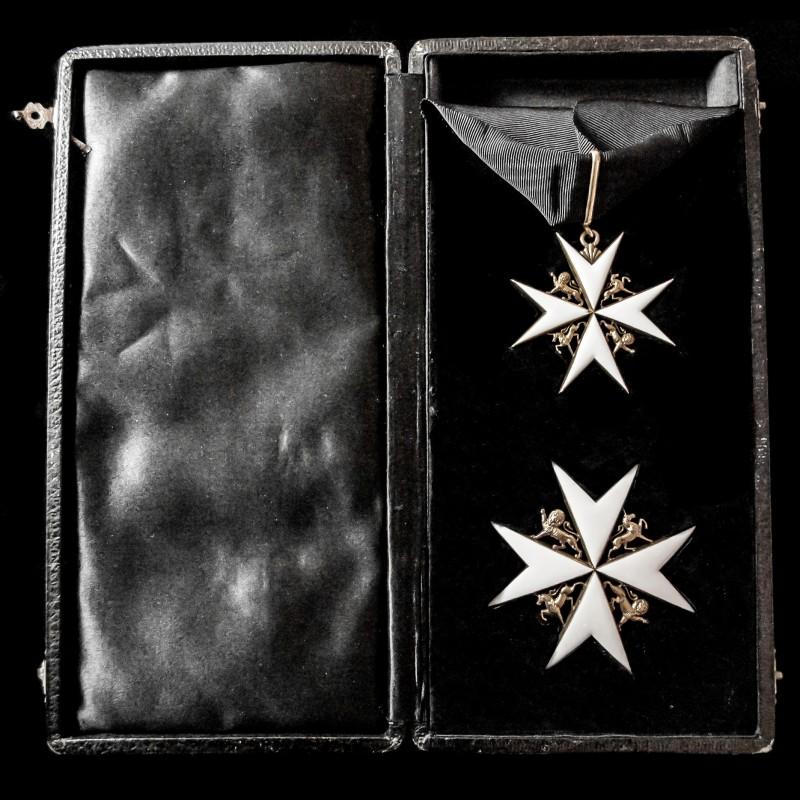 The neck badge and star of a Knight of Grace of the Most Venerable Order of of the Hospital of St John of Jerusalem displayed in a presentation case.